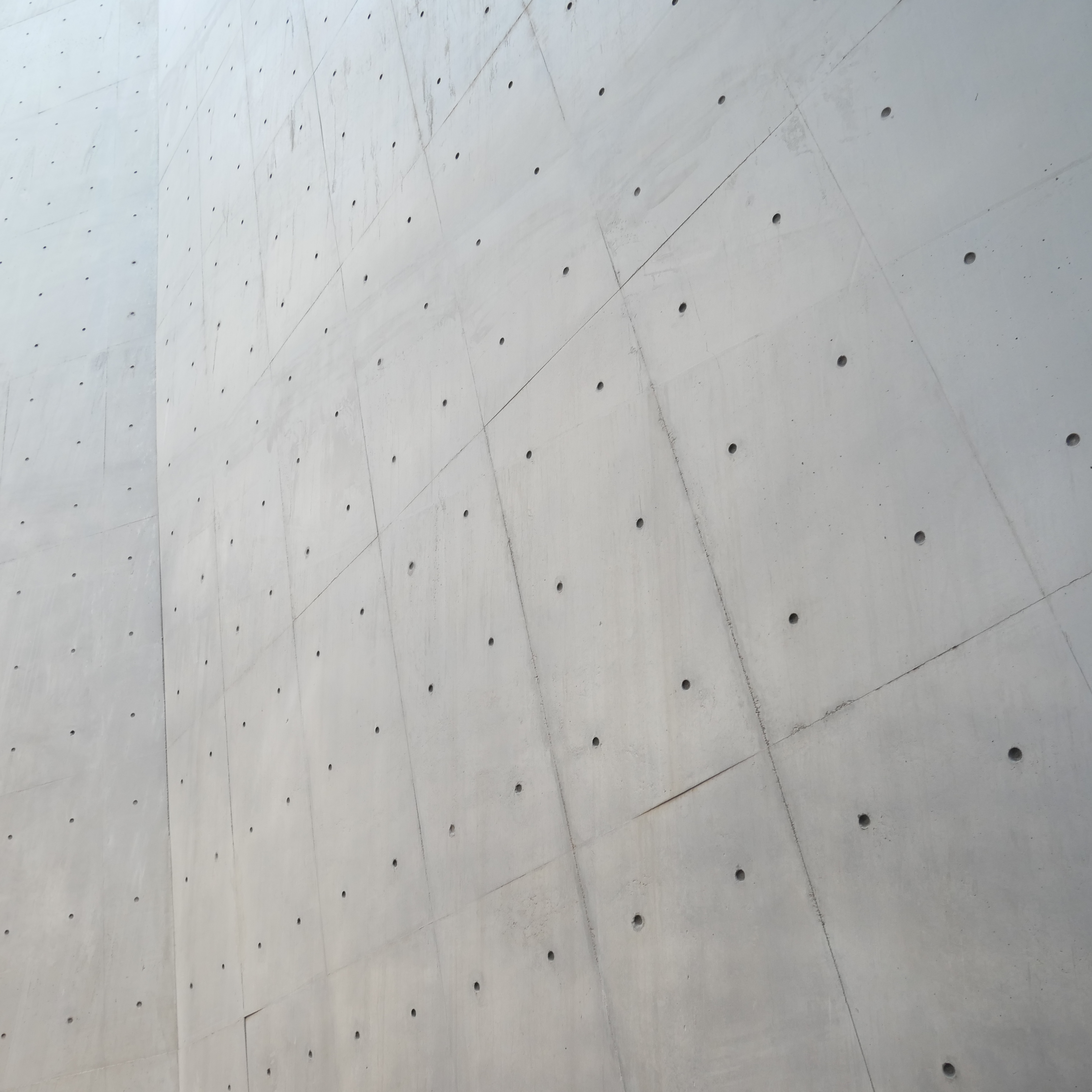 新北市立十三行博物館清水模內牆，新北市八里區頂罟里